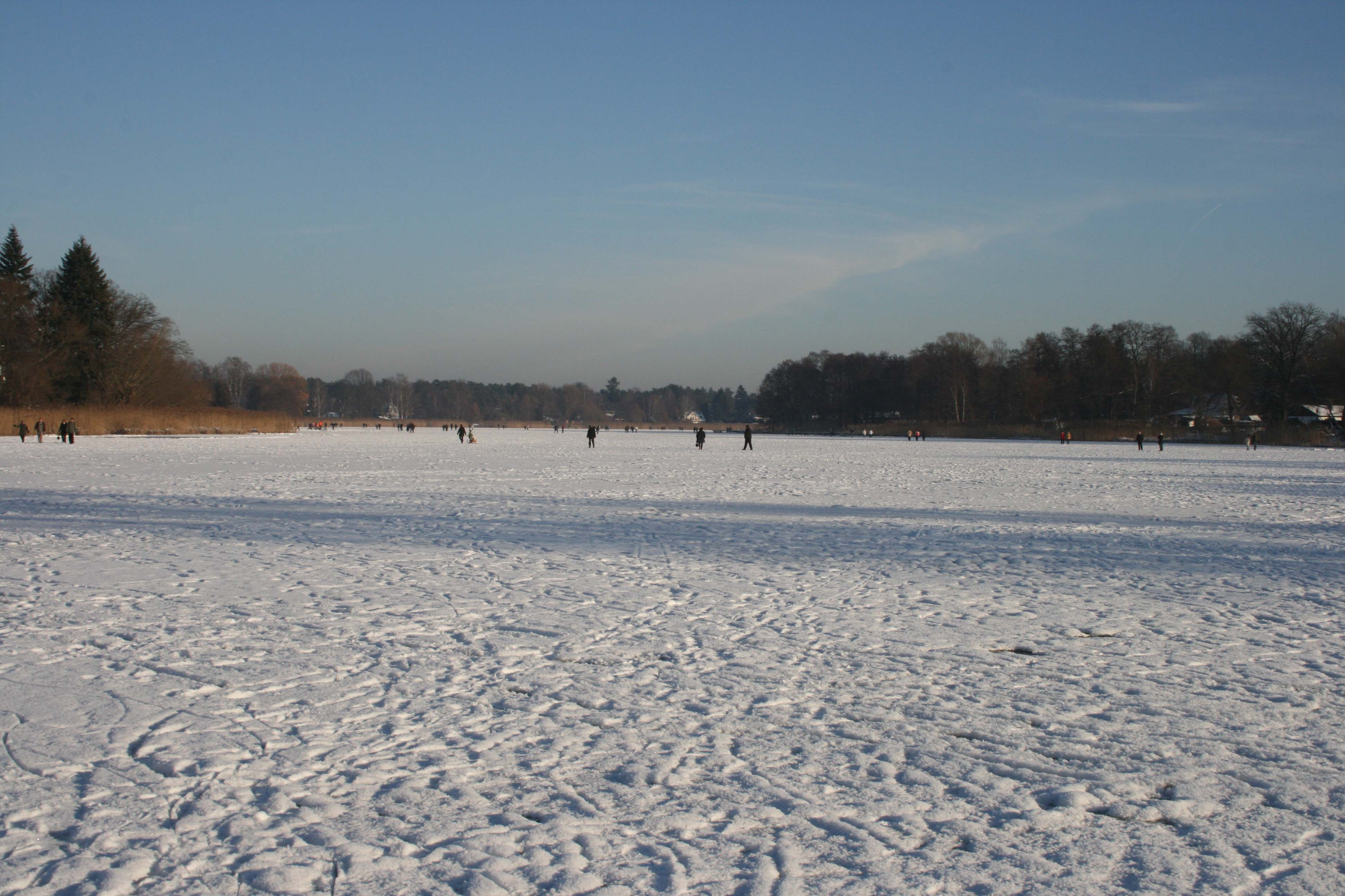 Frozen lake "Falkenhagener See" in Falkensee near Berlin. View towards west.